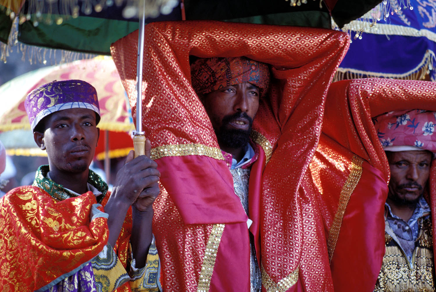 A priest of Ethiopian Orthodox Church is holding a Tabot in a Timket (Epiphany) ceremony at Gondar, Ethiopia